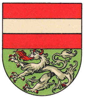 Coat of arms of Mödling, Lower Austria